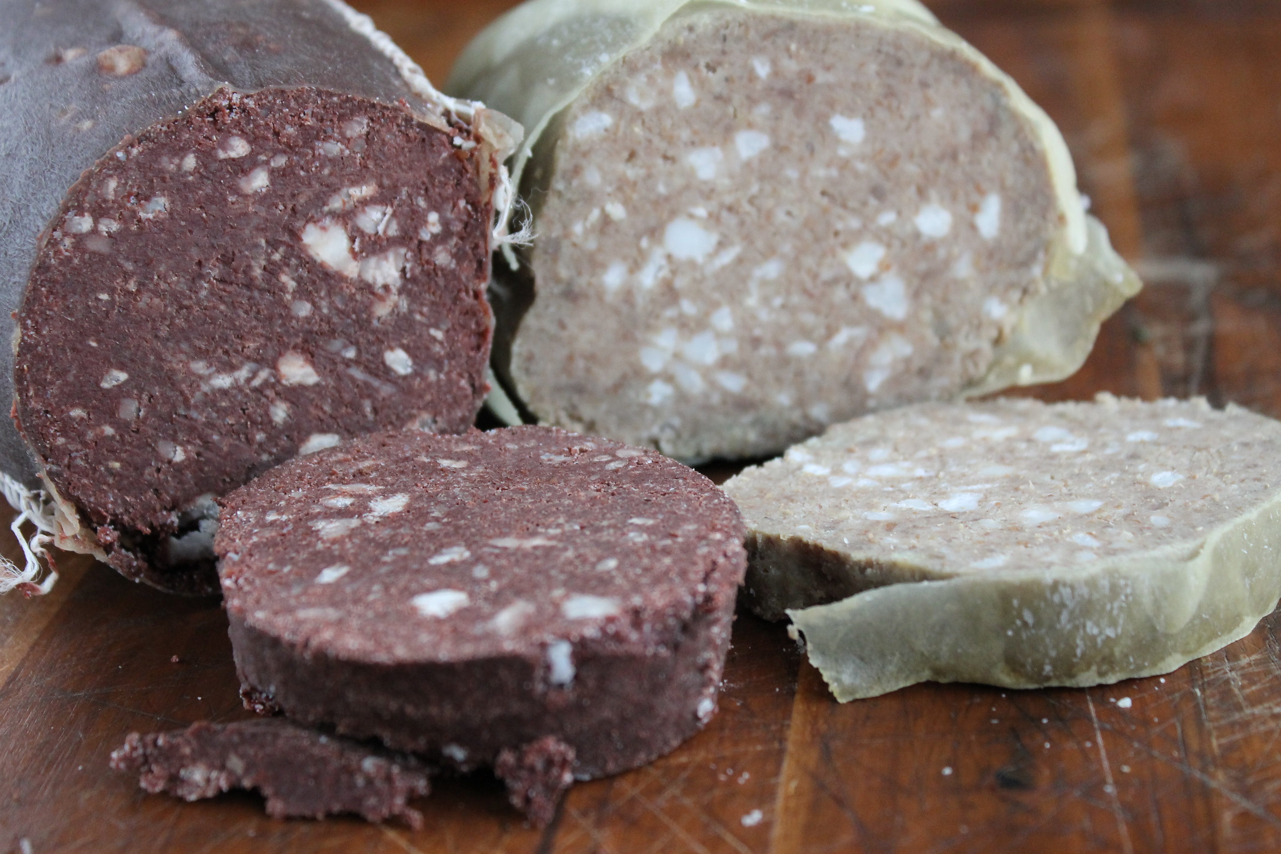 Icelandic lamb's blood pudding (blóðmör) and liver sausage (lifrarpylsa).